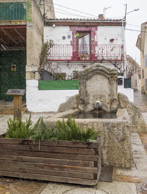 Fuente nueva